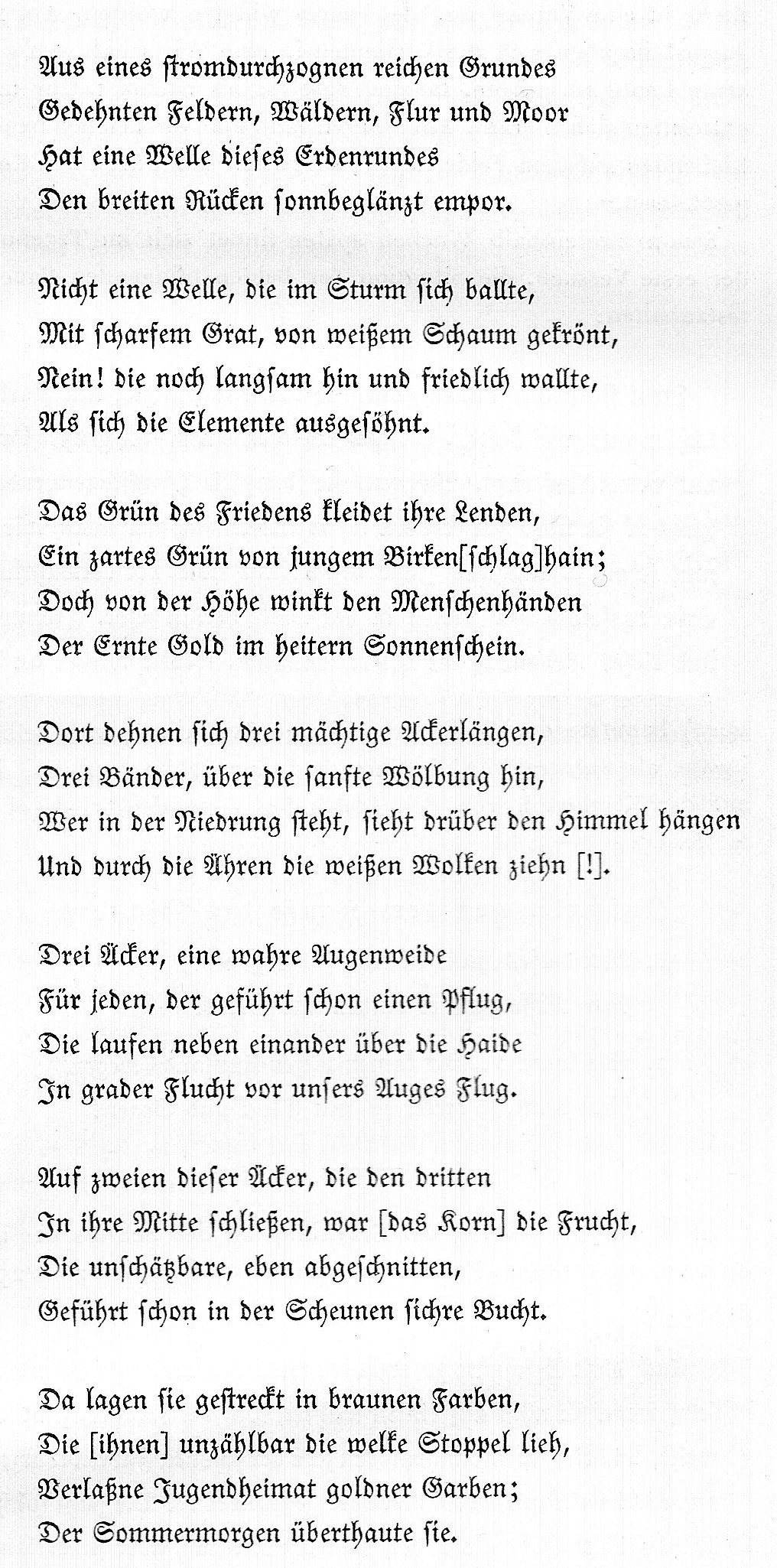 Text scan from a poem by Gottfried Keller (1819-1890) "A Village Romeo and Juliet", fragment of a poetic version